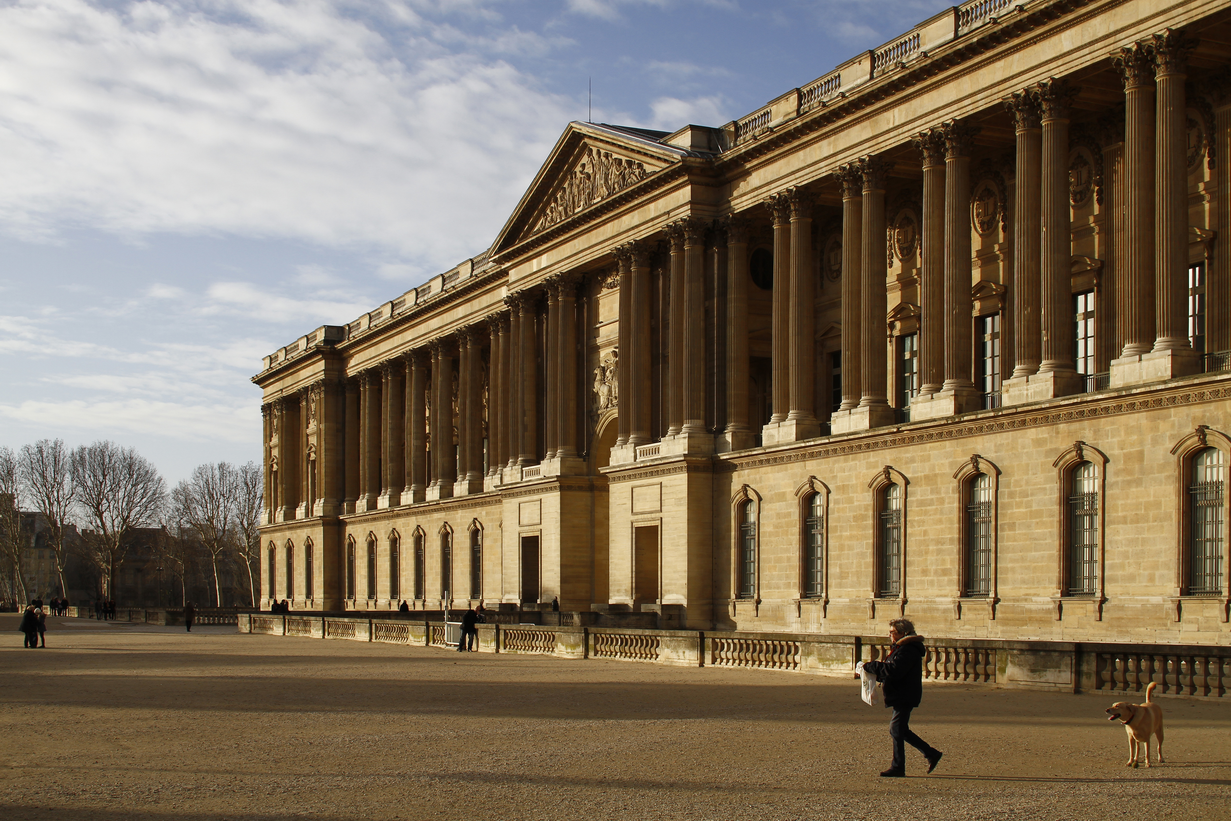 East facade of Louvre, Paris.